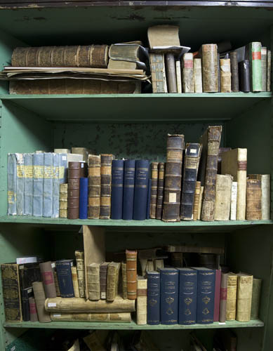 Library of SASA, old and rare books